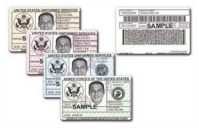 United States Uniformed Services Privilege and Identification Cards